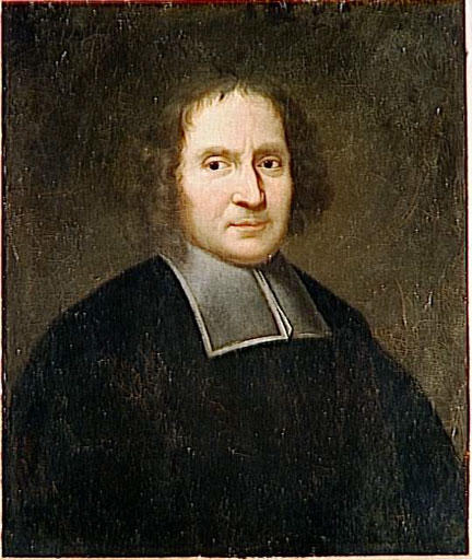 Portrait of French writer Nicolas-Hubert de Mongault (1674-1746)